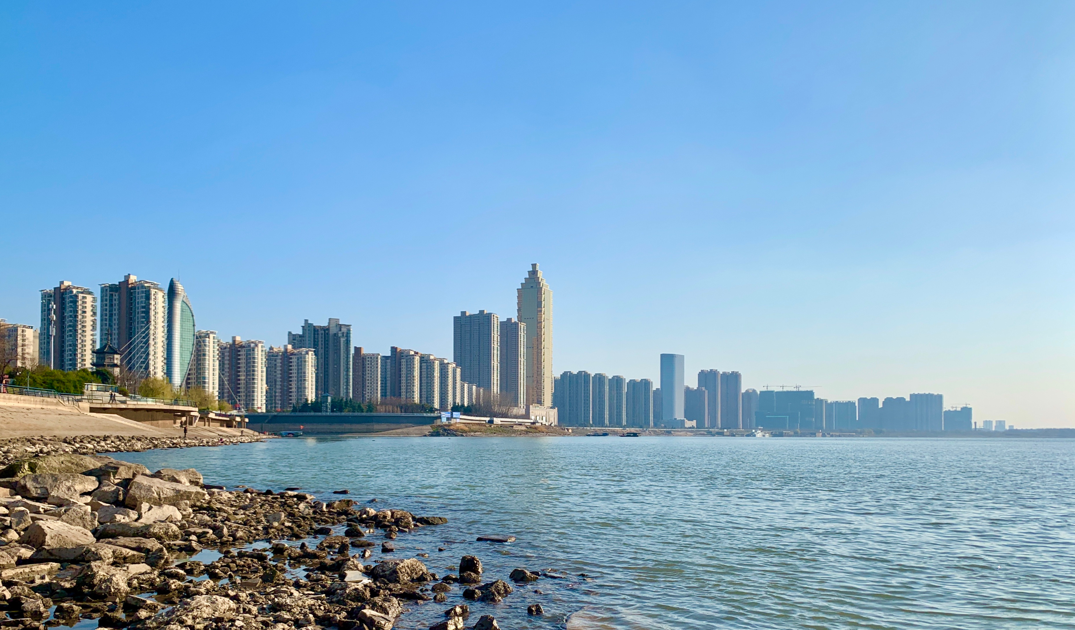 This is a photo showing the skyline of Wuhu.